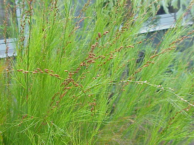 Species: Restio tetraphyllus Family: Restionaceae Image No. 3